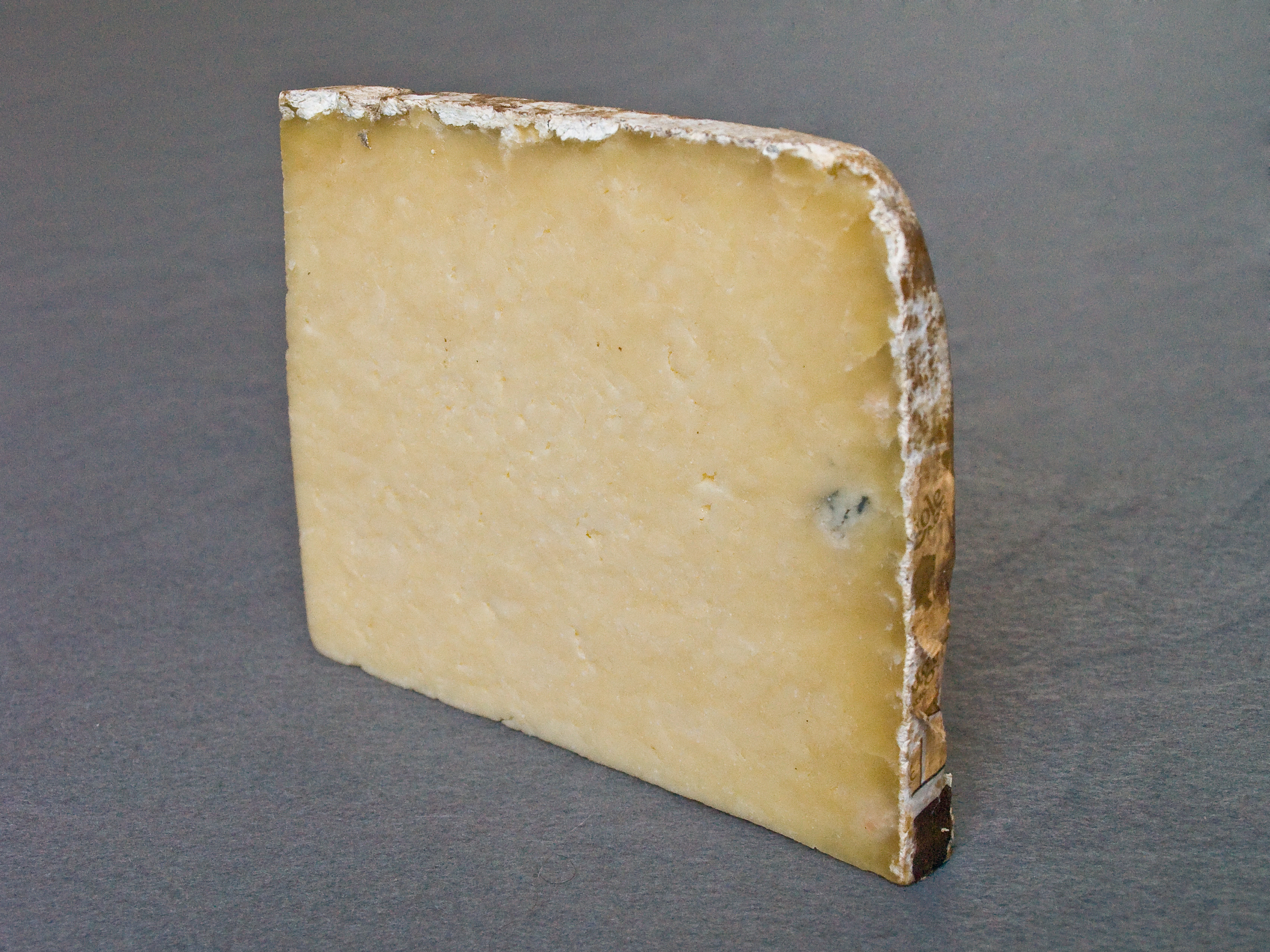 Laguiole is a French cheese labelled Protected Designation of Origin (PDO), made in Aubrac region, in the southern part of France.